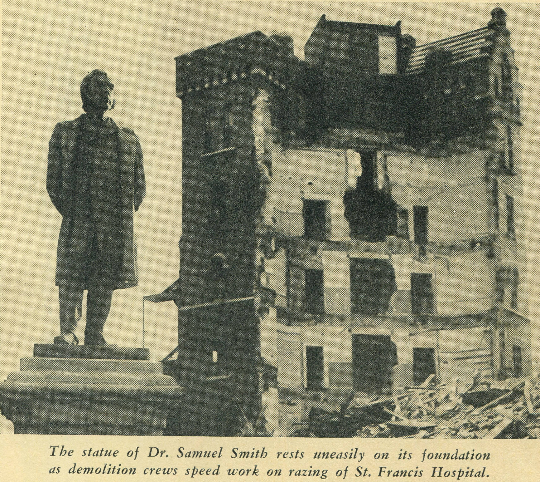 Samuel Smith statue in downtown Columbus, Ohio.